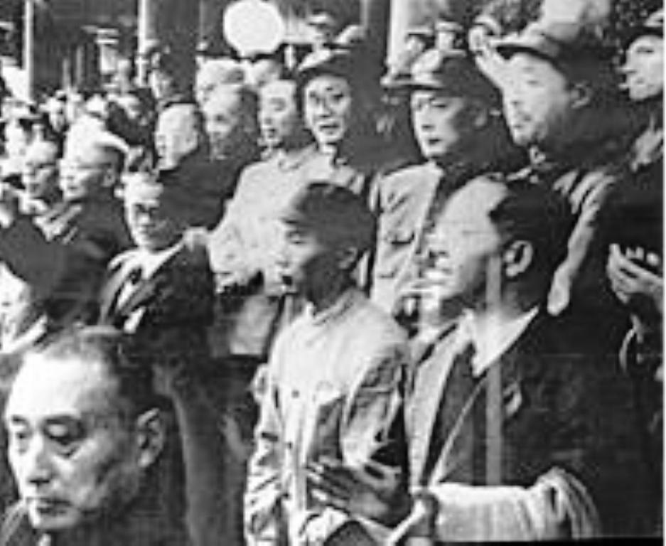 Li Pu at Founding Ceremony of PRC on October 1, 1949.